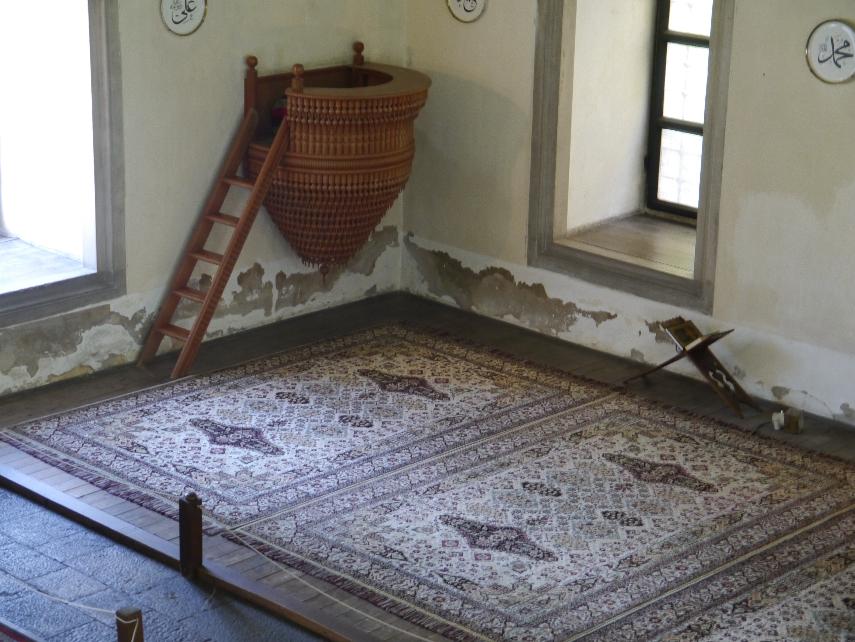 Carpets at the Ottoman Mosque, Pécs, Southern Hungary